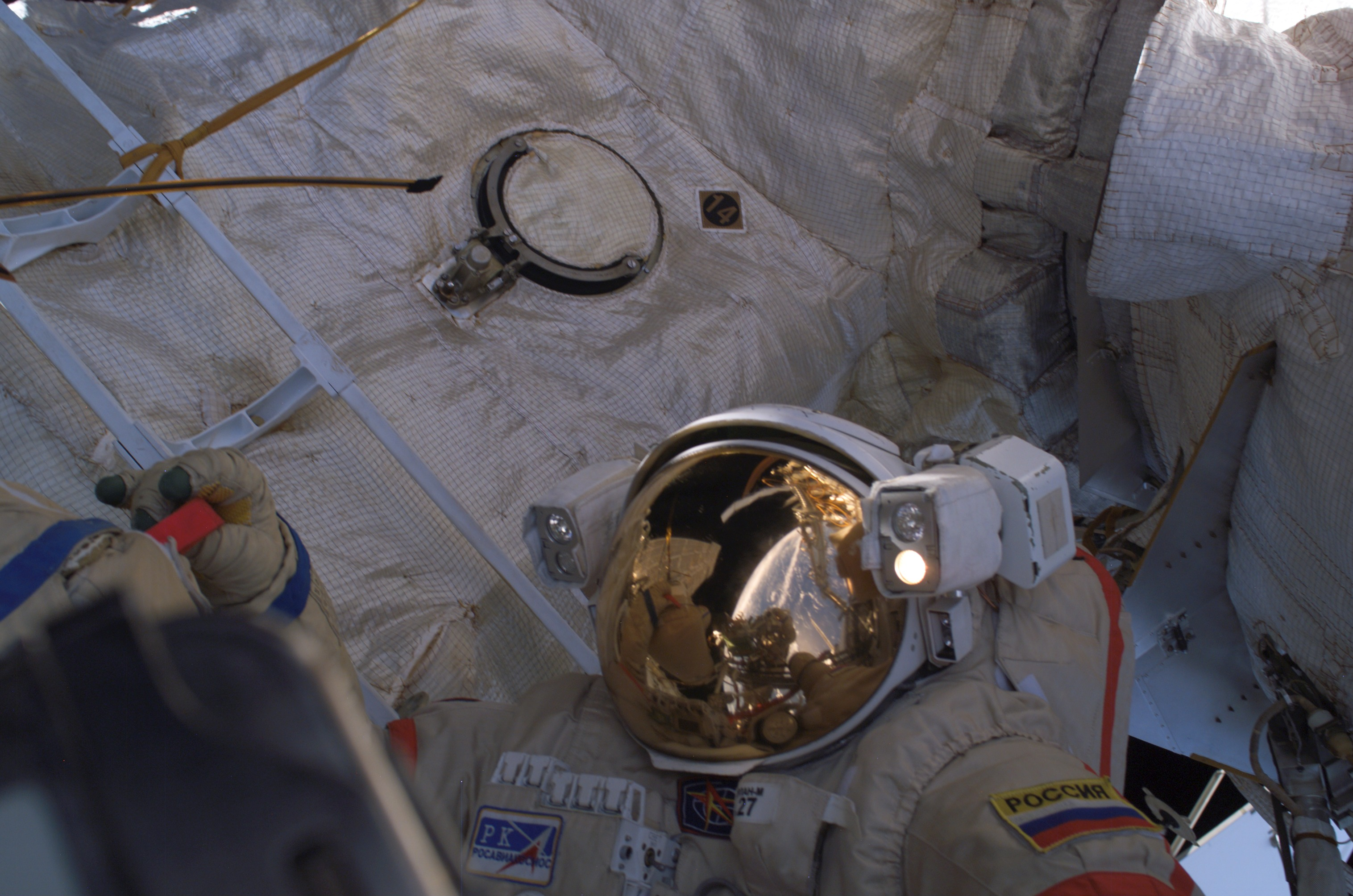 Attired in a Russian Orlan spacesuit, cosmonaut Valery I. Tokarev, Expedition 12 flight engineer representing Russia's Federal Space Agency, participates in the second session of extravehicular activity (EVA) performed by the Expedition 12 crew during their six-month mission. During the five-hour, 43-minute spacewalk, Tokarev and astronaut William S. (Bill) McArthur (out of frame), commander and NASA space station science officer, released SuitSat, conducted preventative maintenance to a cable-cutting device, retrieved experiments and photographed the station’s exterior.